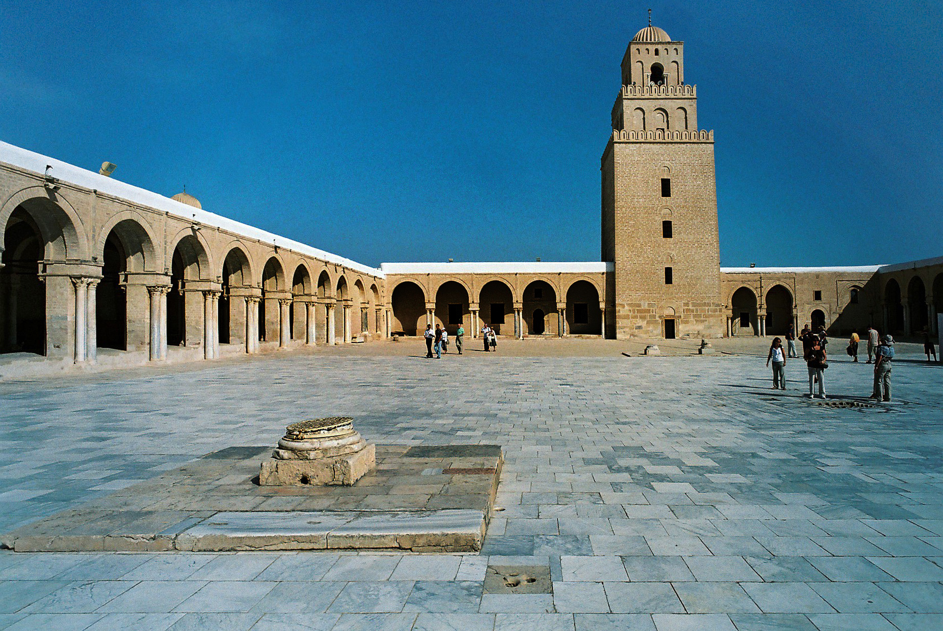 Visitors tour the courtyard of the Great Mosque of Kairouan, also known as the Mosque of Uqba, on August 19, 2008.